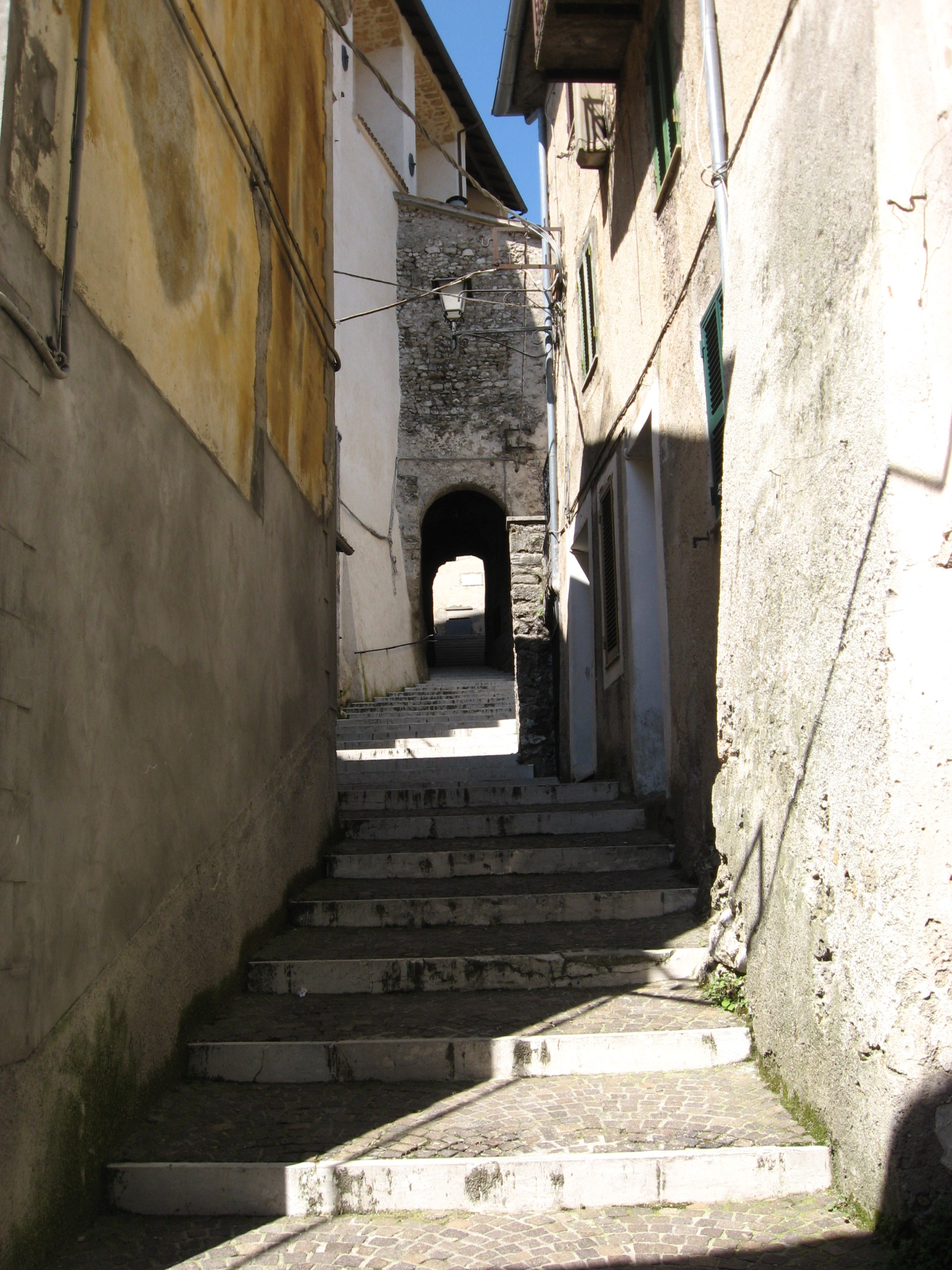 Stairs in the old village